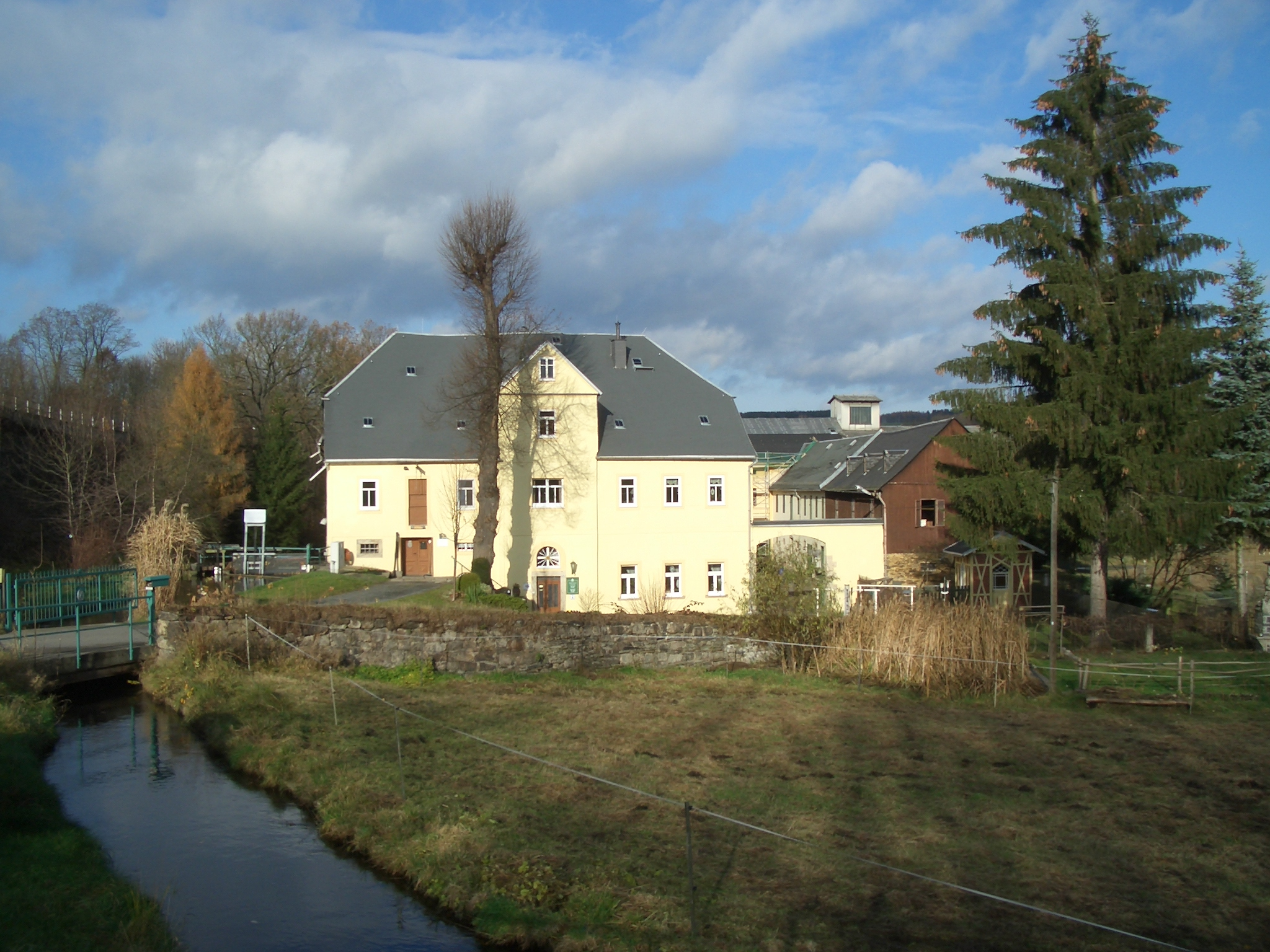 Klopfermuehle